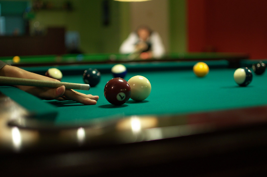 A player is preparing for a shot in 8-ball